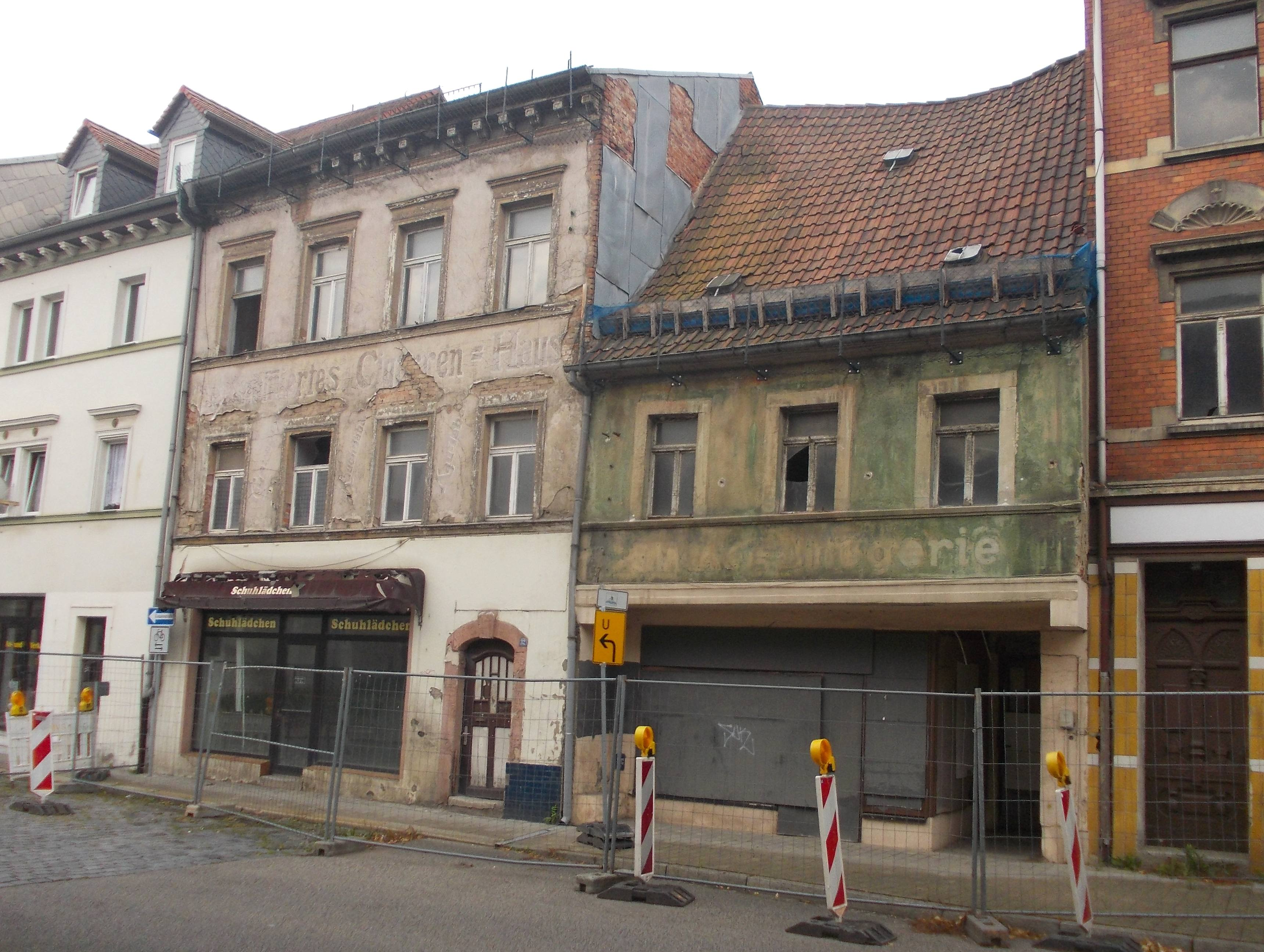 No. ,Saalstrasse in Weissenfels (district: Burgenlandkreis, Saxony-Anhalt)